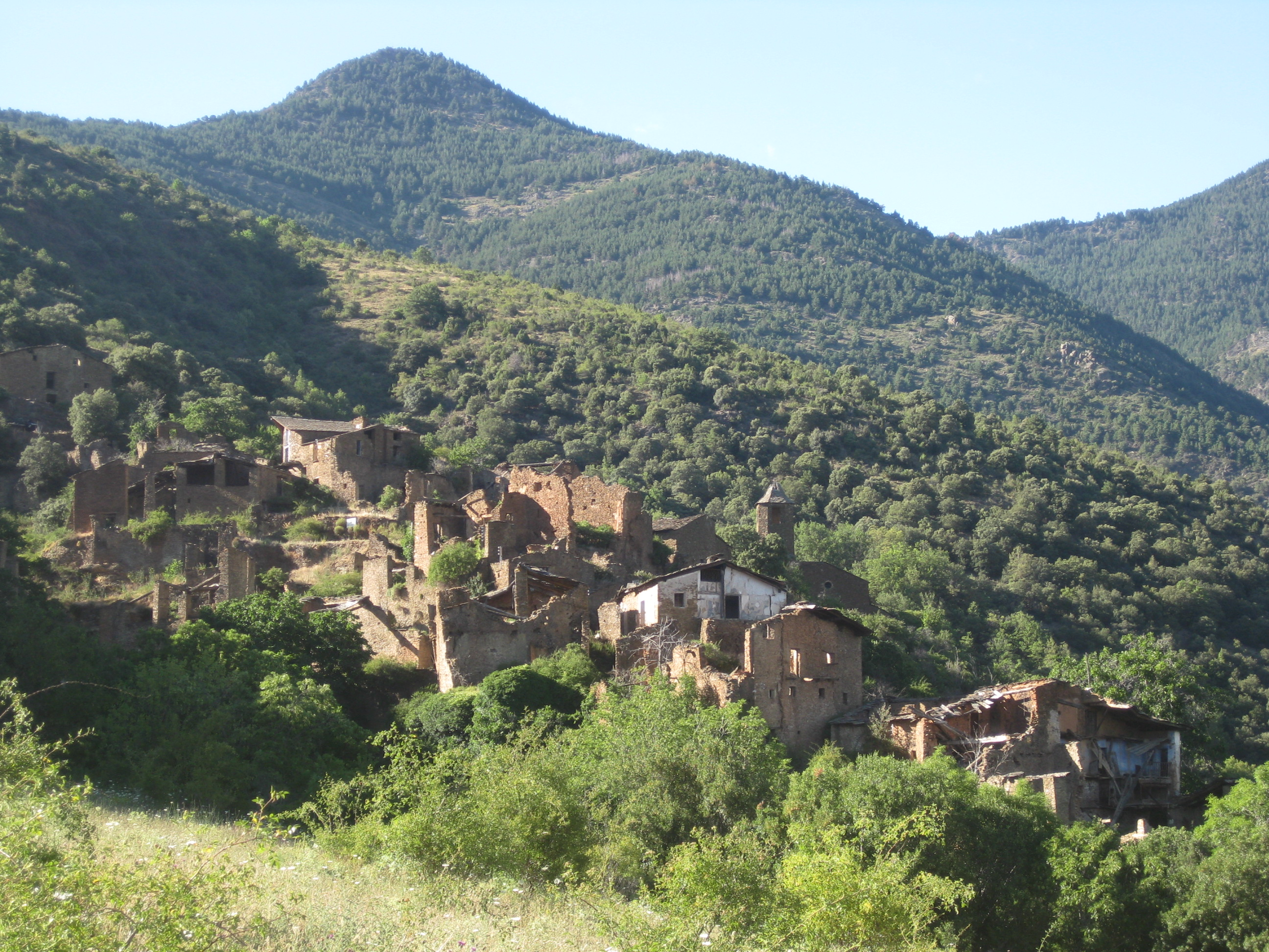 vista general de Solanell